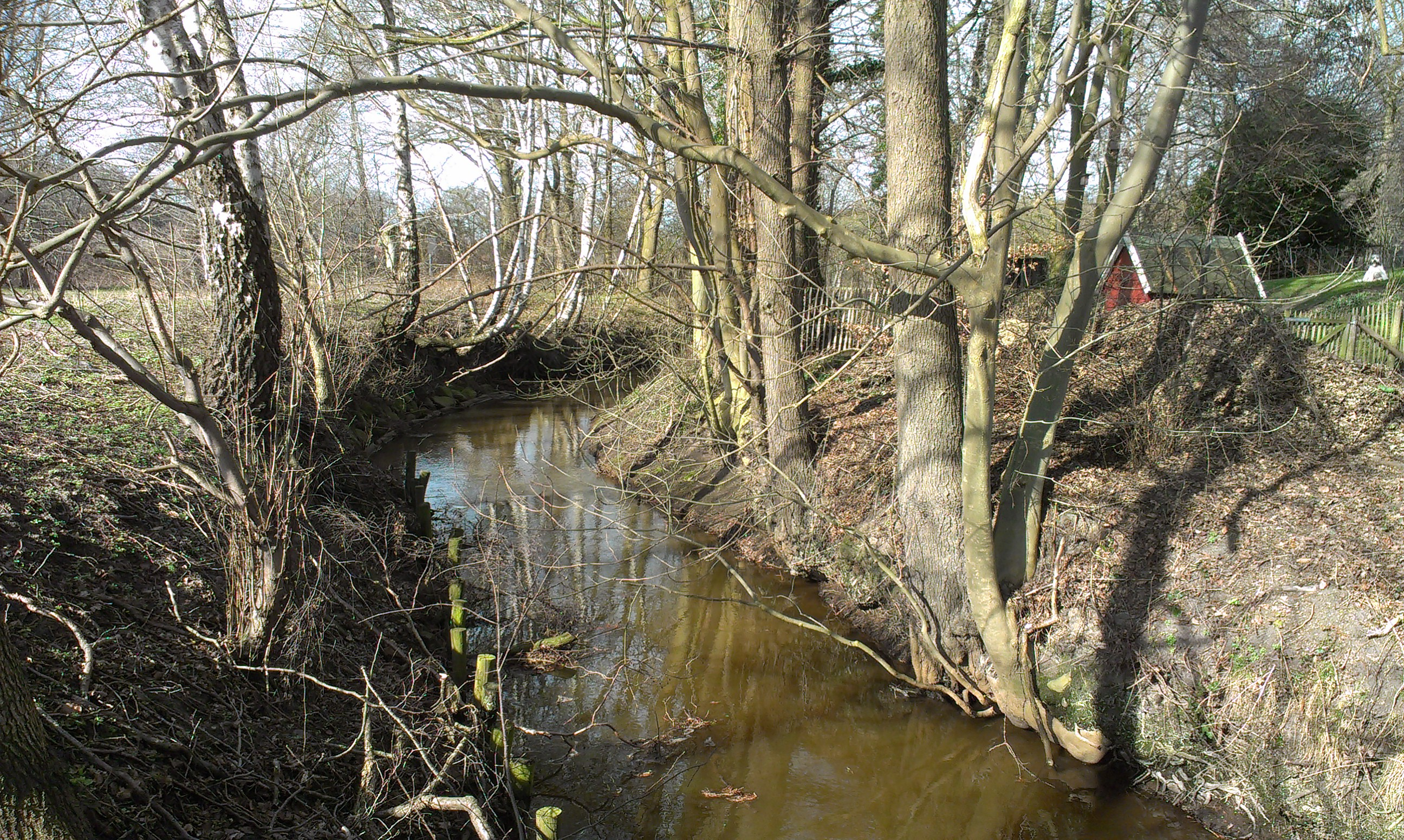 The Berne shortly after the confluence of the Kimmer Baeke and Brookbaeke